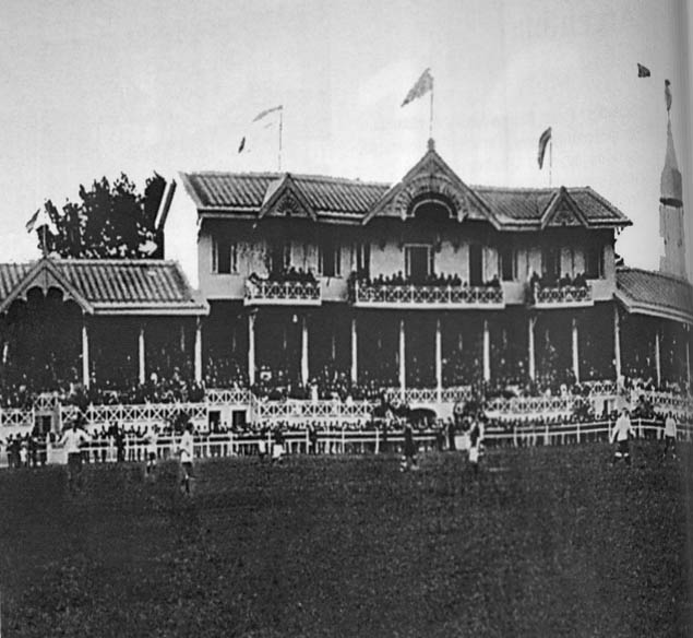 The Gimnasia y Esgrima (BA) stadium during the 1916 Copa América (first edition). It was considered the best stadium in South America by then.